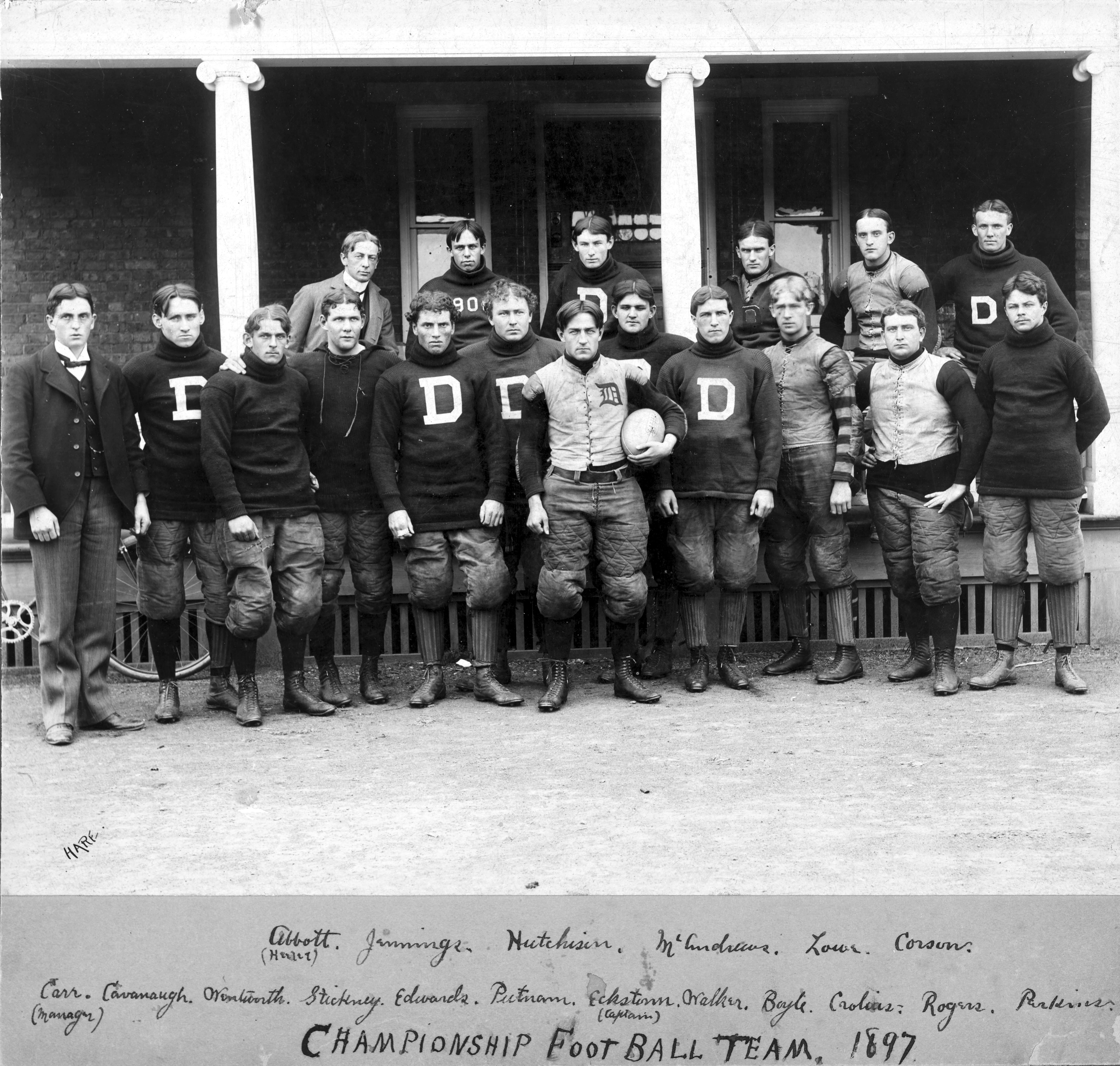 Dartmouth football 1897 John Eckstrom, David Carr MacAndrew, Joseph Wentworth, Hanover, NH, George Henry Abbott; Frederick Everett Jennings; James Hutchison; David Carr Macandrew; Frank William Lowe; Freeman Corson; Charles Everett Carr; Frank William Cavanaugh; Joseph Wentworth; William Stickney; Joseph Henry Edwards; John Henry Putnam; John Bernard Christian Eckstorm; James Brackett Walker; Charles John Boyle; Frederick Joseph Crolius; Charles Warner Rogers Rauner Special Collections Library, 6065 Webster Hall, Hanover, NH 03755, USA, Phone: 603-646-0538, , URL